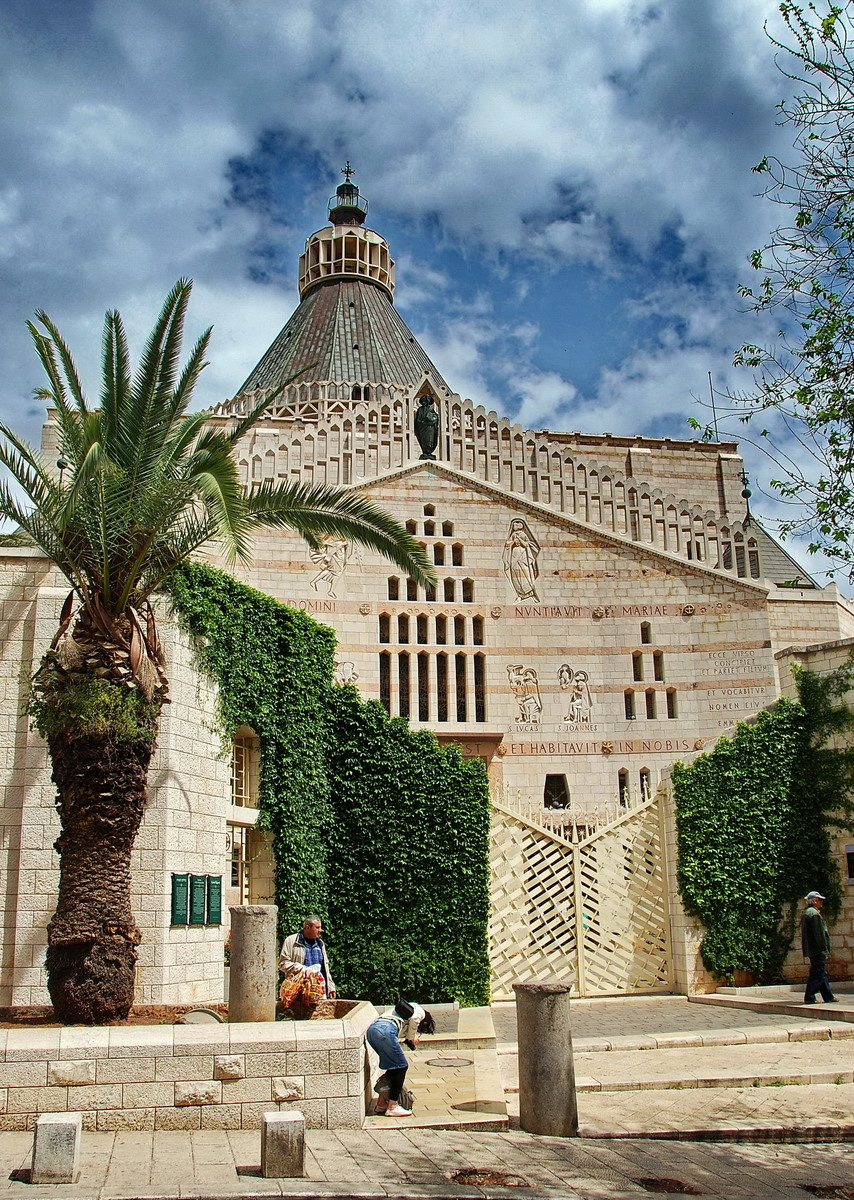 Cities in Israel